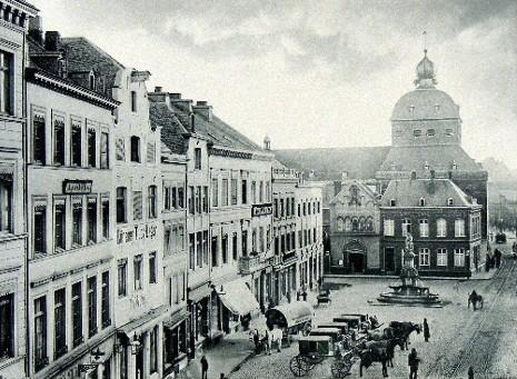 Köln in Bildern is a collection of 60 collotypes with views of Cologne, made in 1895 by Kunstanstalt Schaar & Dathe from Trier, Germany. The collection was issued by Verlag Neubner from Cologne in 1896. This image show a view of the Waidmarkt in Cologne, with the Hermann-Josef fountain in the background.